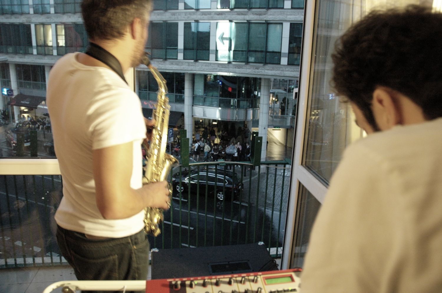 Koncerty Balkonowe 2012